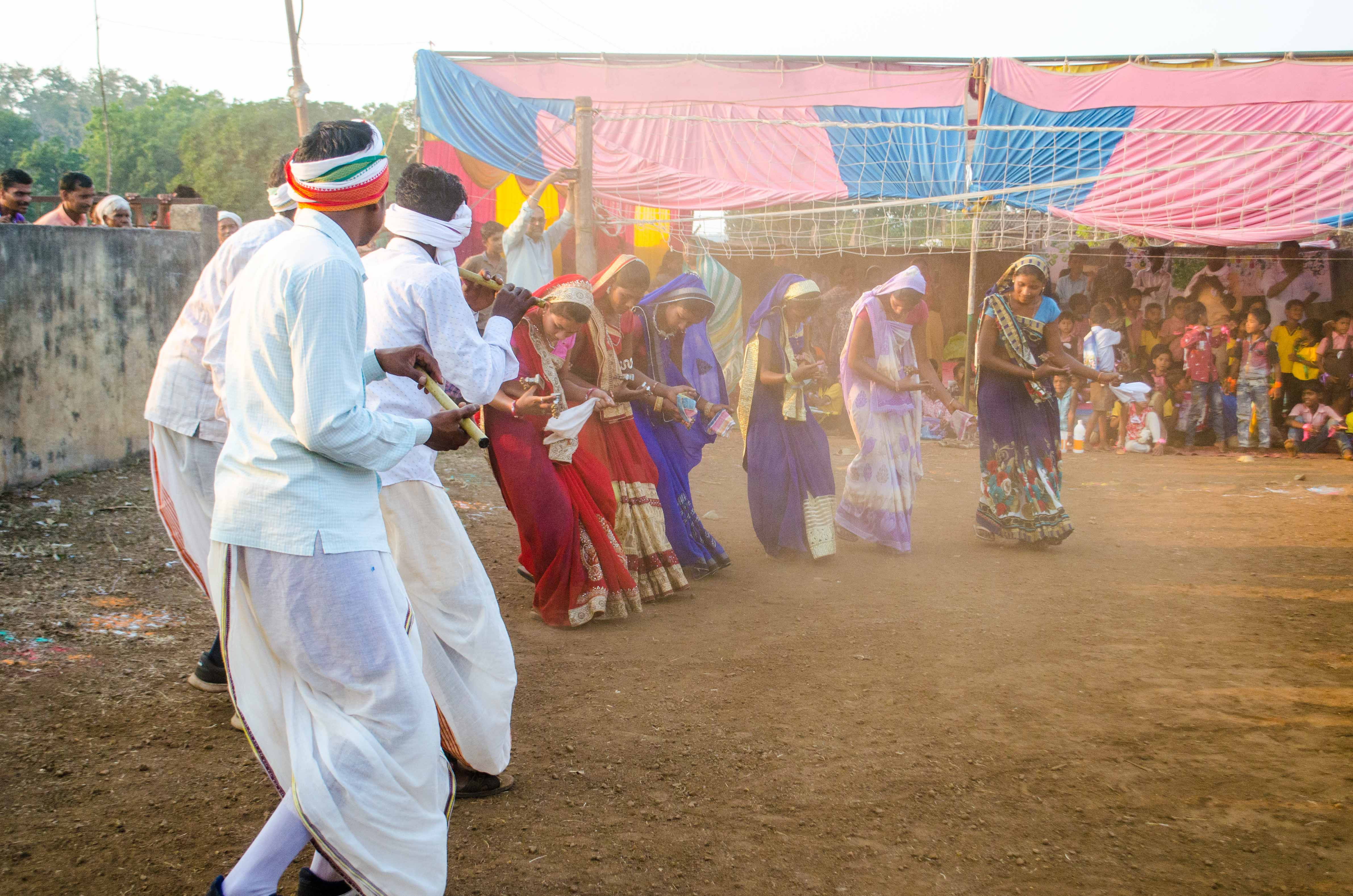 A group of Korku tribal dancers presenting their folk dance at a cultural program